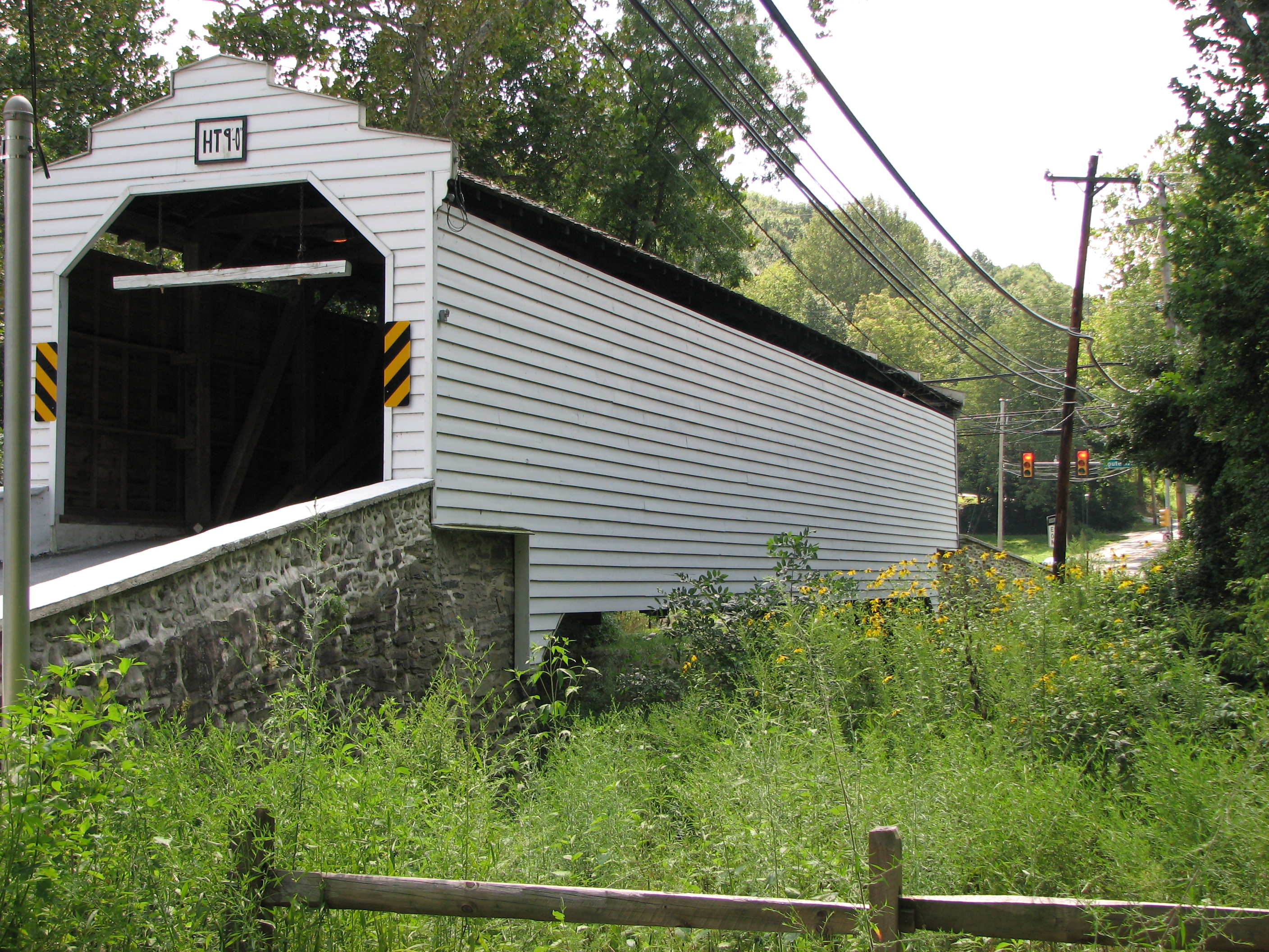 The east side of Gibson's Covered Bridge, a bridge in Downingtown, Pennsylvania on the National Register of Historic Places which carries Harmony Hill Road over the East Branch Brandywine Creek.